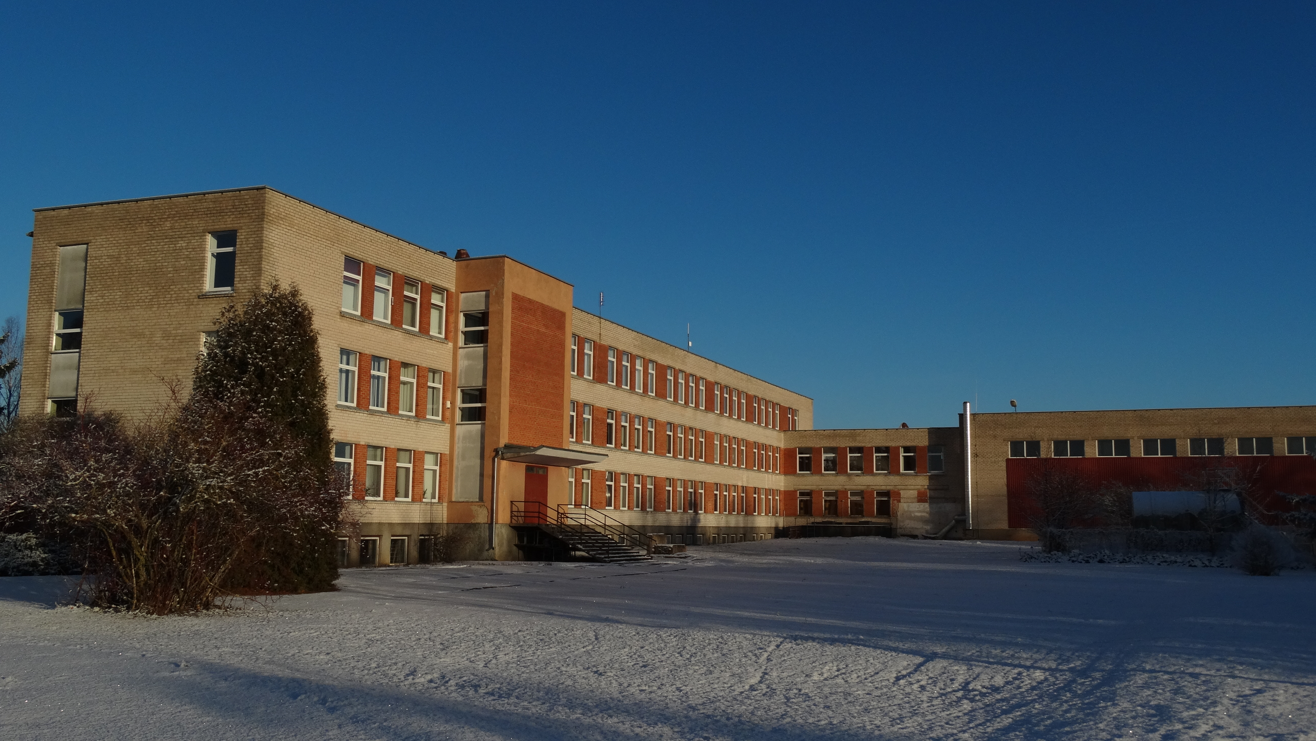 Basic school in Girdžiai, Jurbarkas district, Lithuania